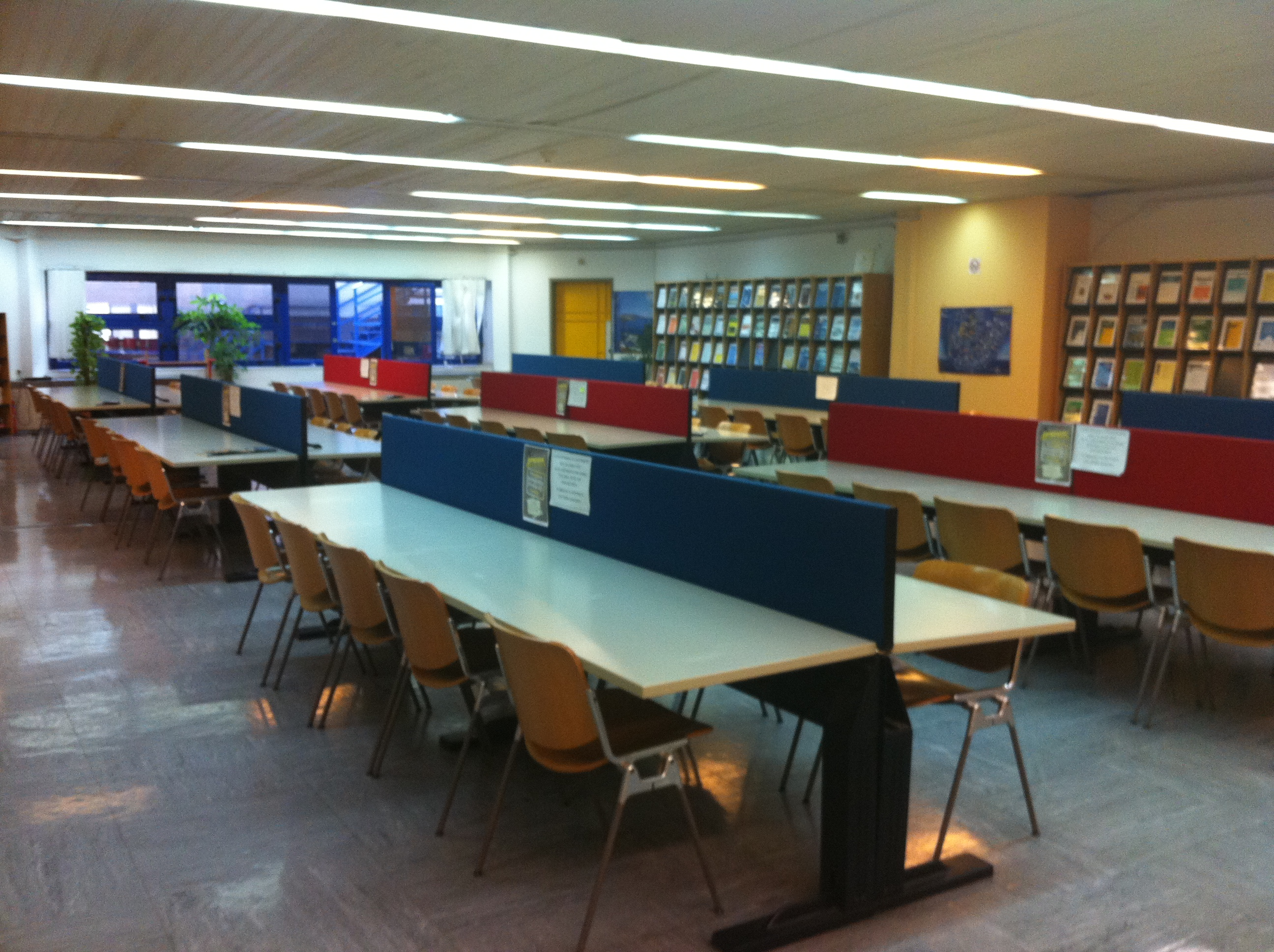 University of Piraeus - Library - Study room